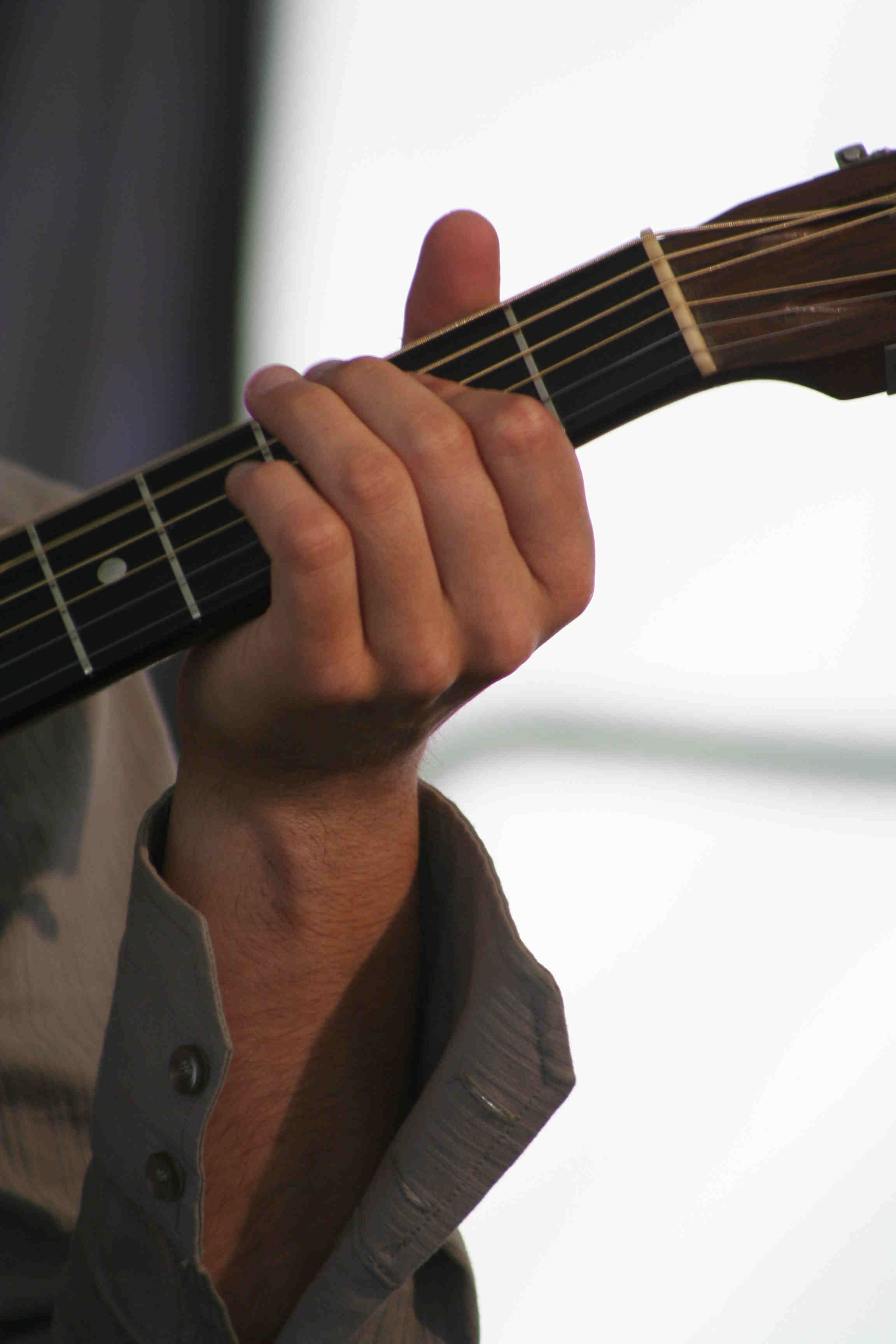 Dancing Hands . Calvin Vollrath, Fiddler . . 2006 Smithsonian Folklife Festival . . National Mall . WDC . Saturday evening, 8 July 2006 . Elvert Xavier Barnes Photography Alberta Canda Festival at